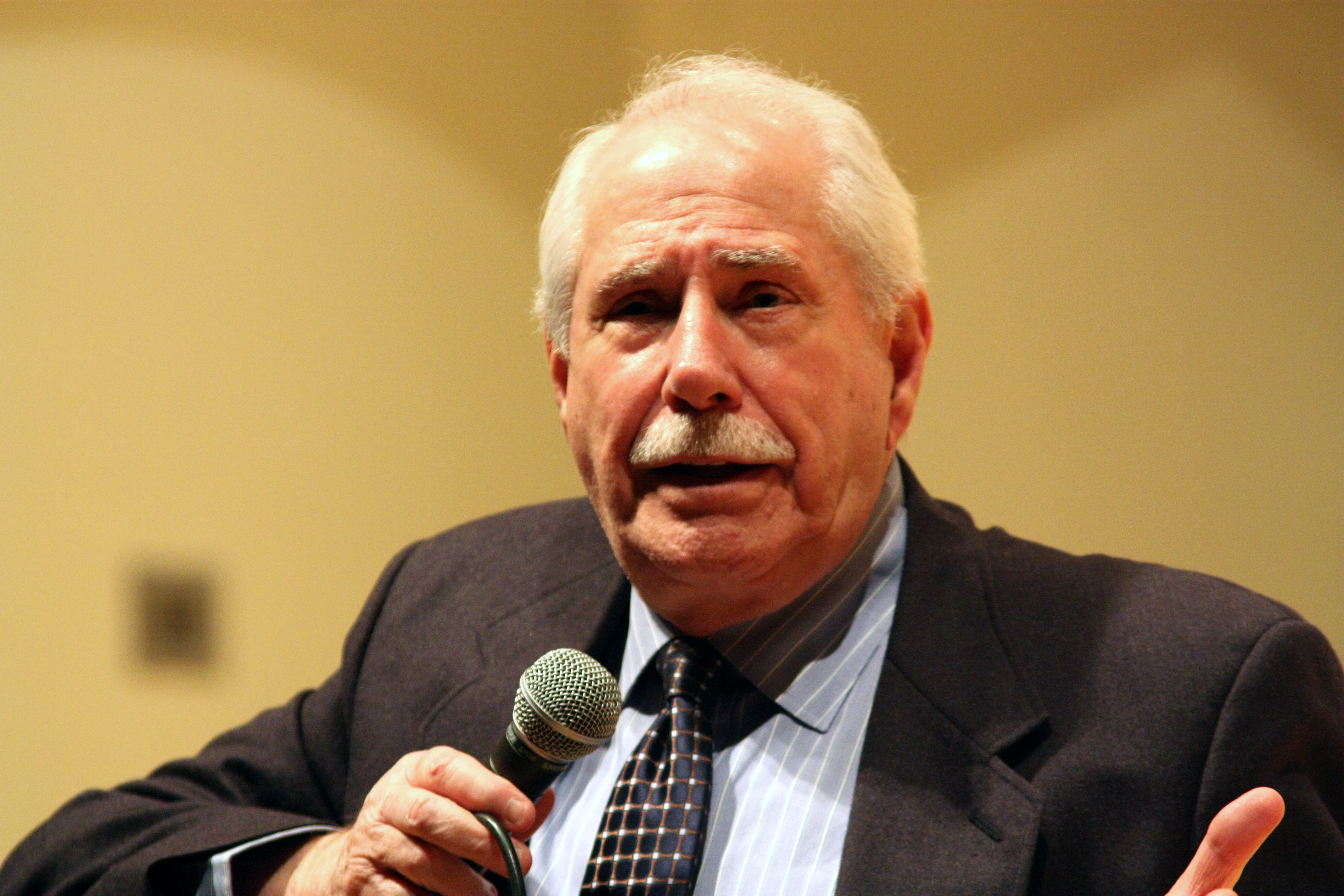 Former Senator Mike Gravel speaking at Ball State University in Muncie, Indiana.